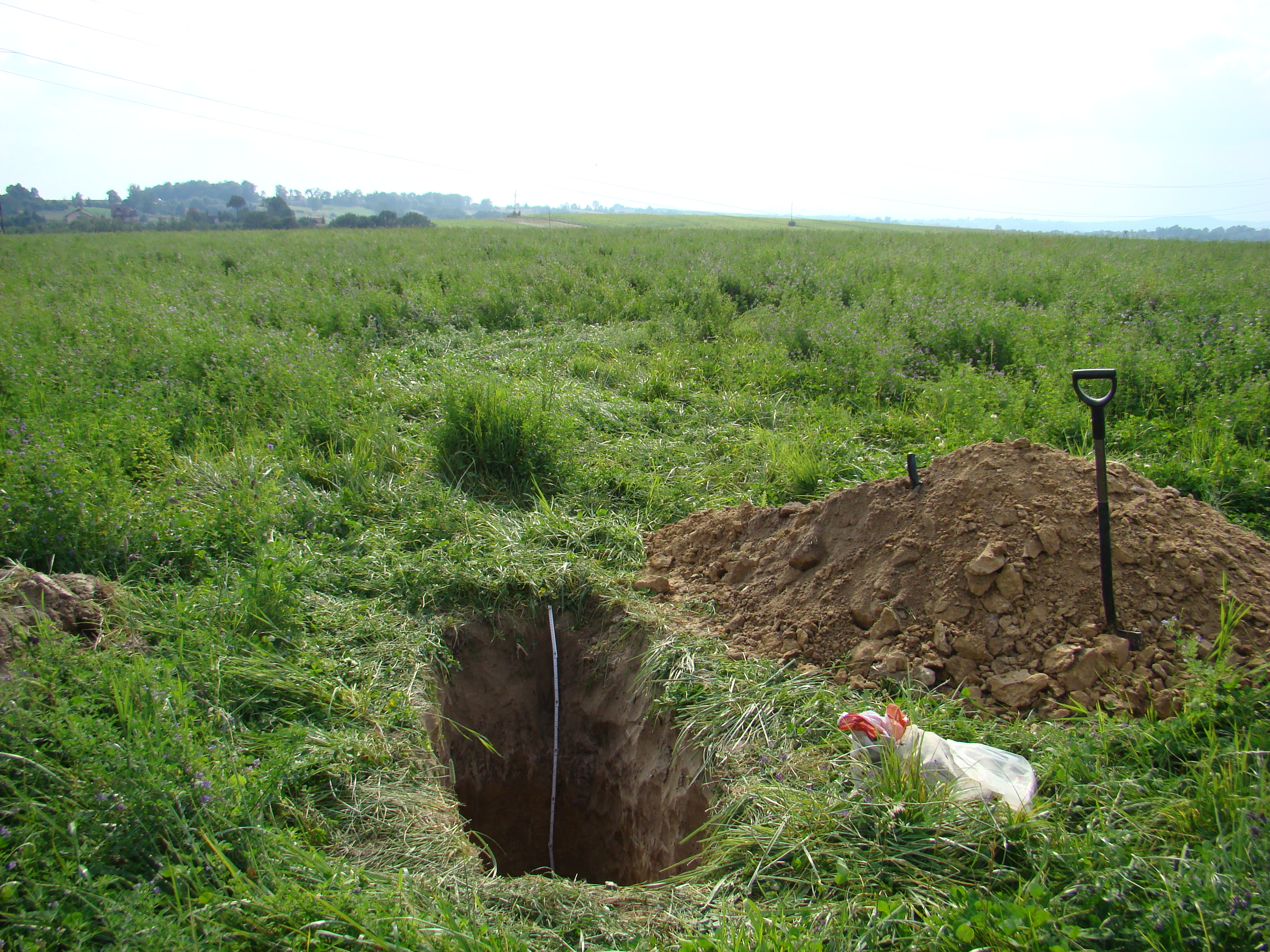 Soil pit of luvisol (alfisol), Carpathian Foothills, S Poland